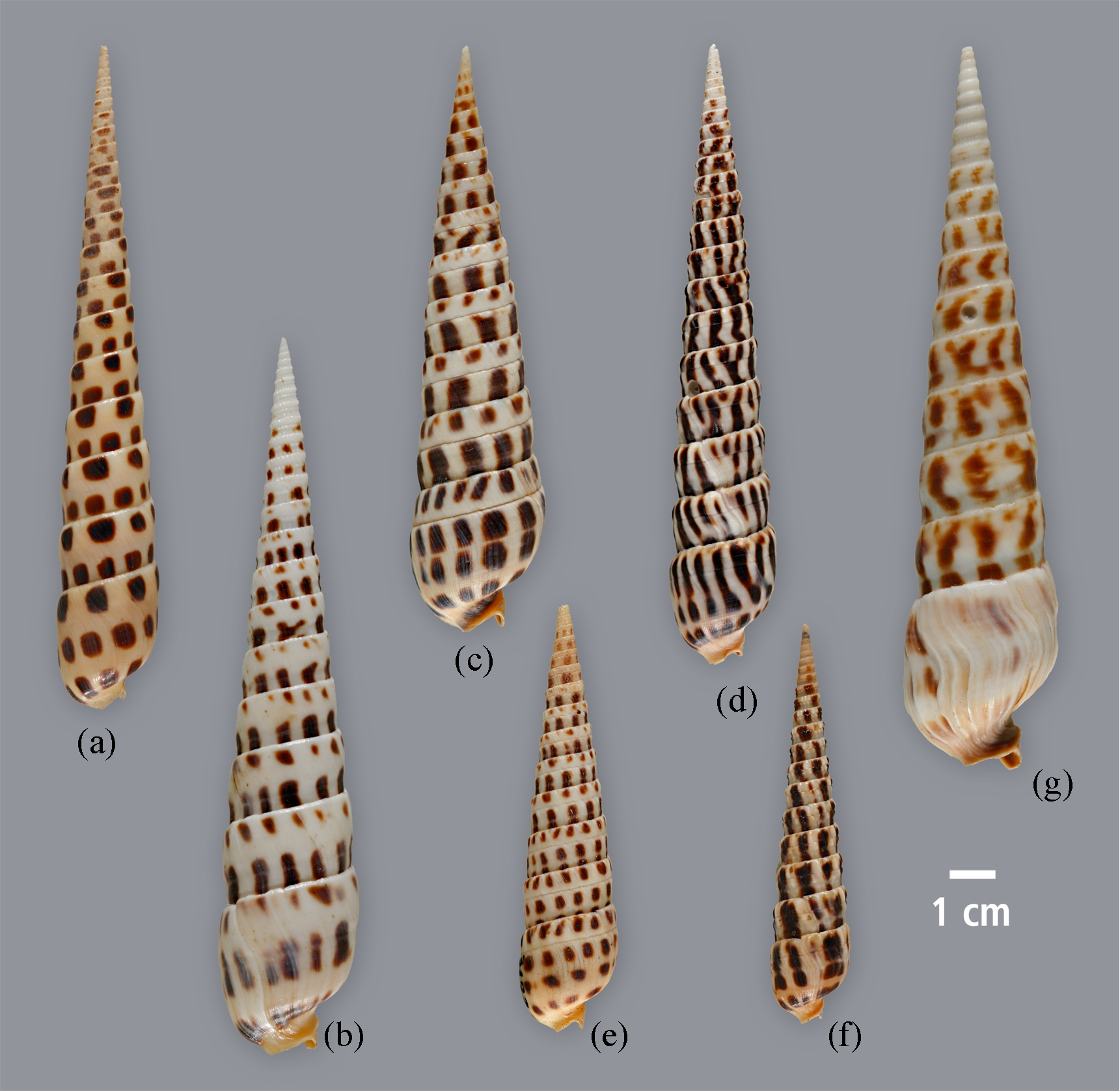 Diversity of Eastern Pacific Terebra. The figure shows the diversity of the venomous eastern Pacific forms tentatively assigned to Clade C, Terebra. The samples from Mexico, labeled (b–d), appear different to the samples from Panama, which are labeled (e–f). These are compared to the left-most specimen (a), Terebra subulata from the western Pacific and the right-most specimen (f), Terebra taurina from the western Atlantic.